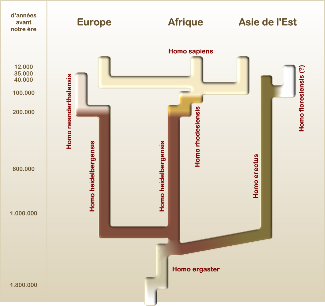 Evolution of genus homini - extreme splitter view